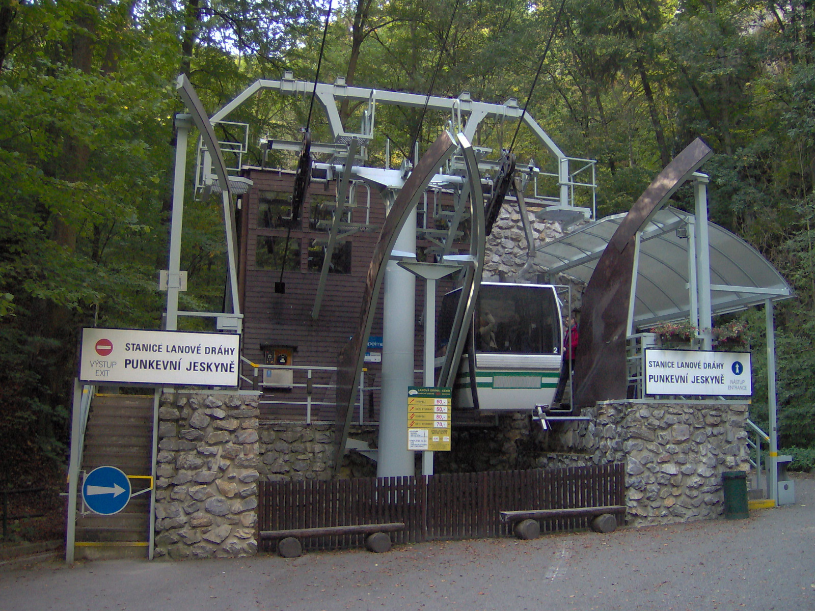 Cableway Punkevní jeskyně - Macocha, lower station Punkevní jeskyně